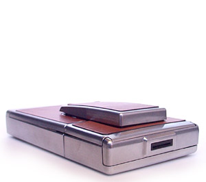 Author: John Kahrs